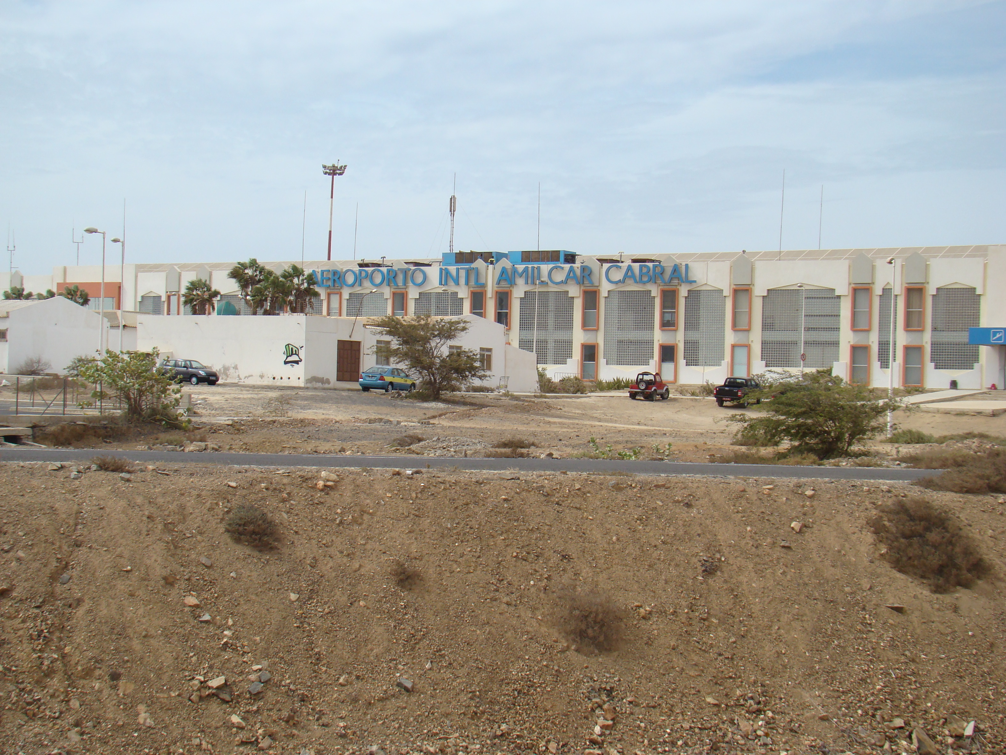 Amilcar Cabral International Airport near Espargos (Sal/Cape Verde)